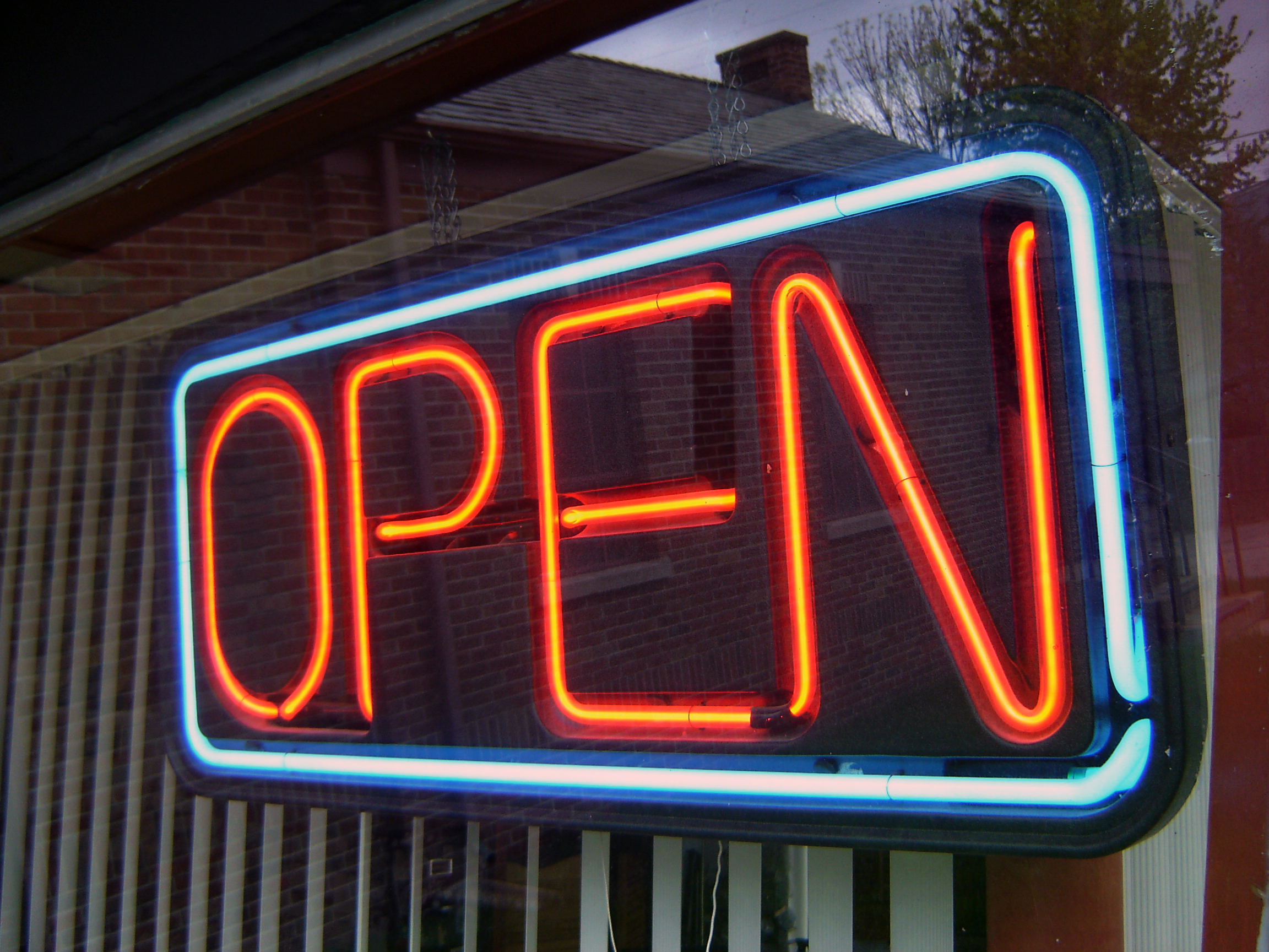 Open sign in Yellow Springs, Ohio, USA